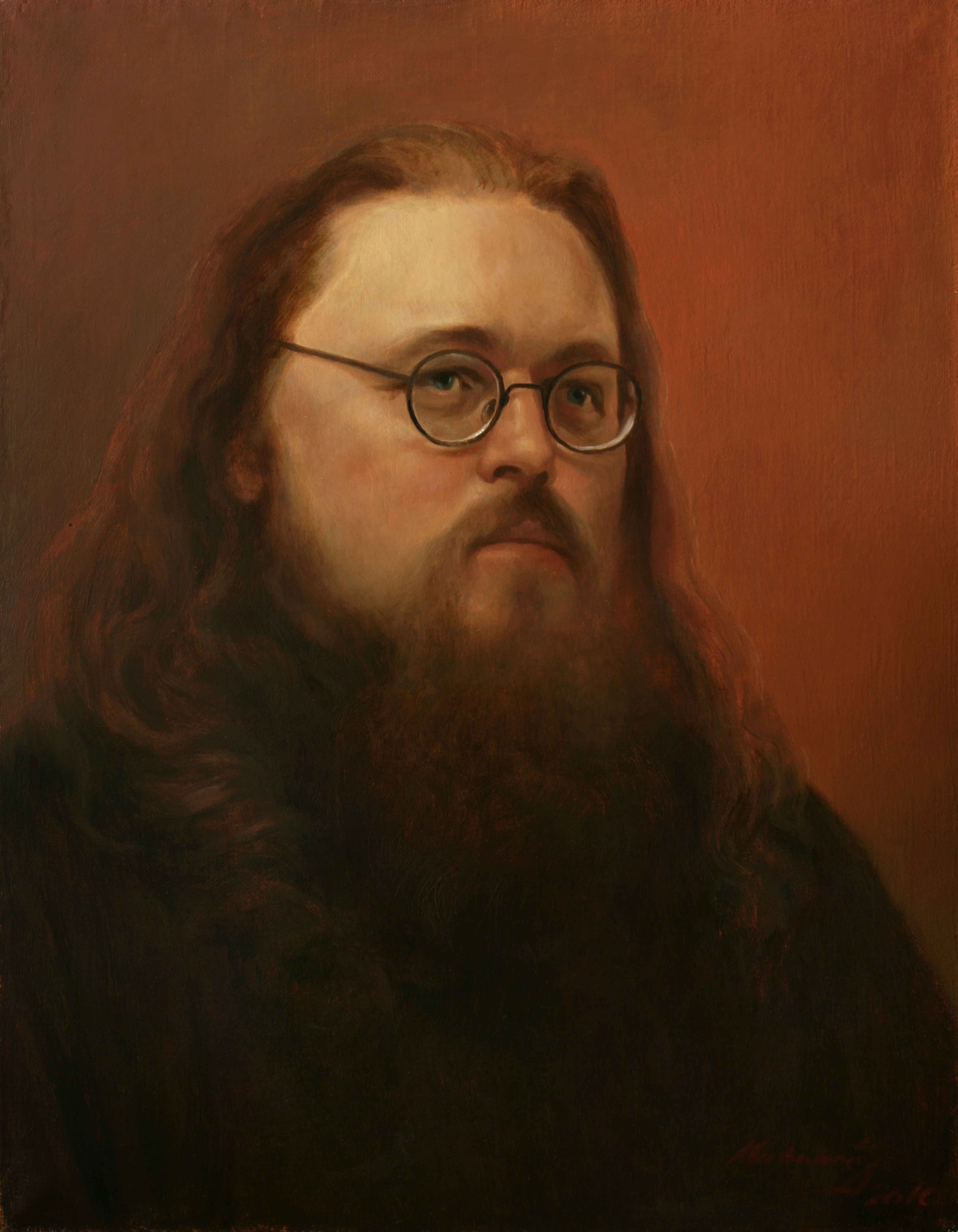 The deacon, theologian Andrei Kuraev. 2010. Canvas, oil. 45 x 35. Artist A.N. Mironov